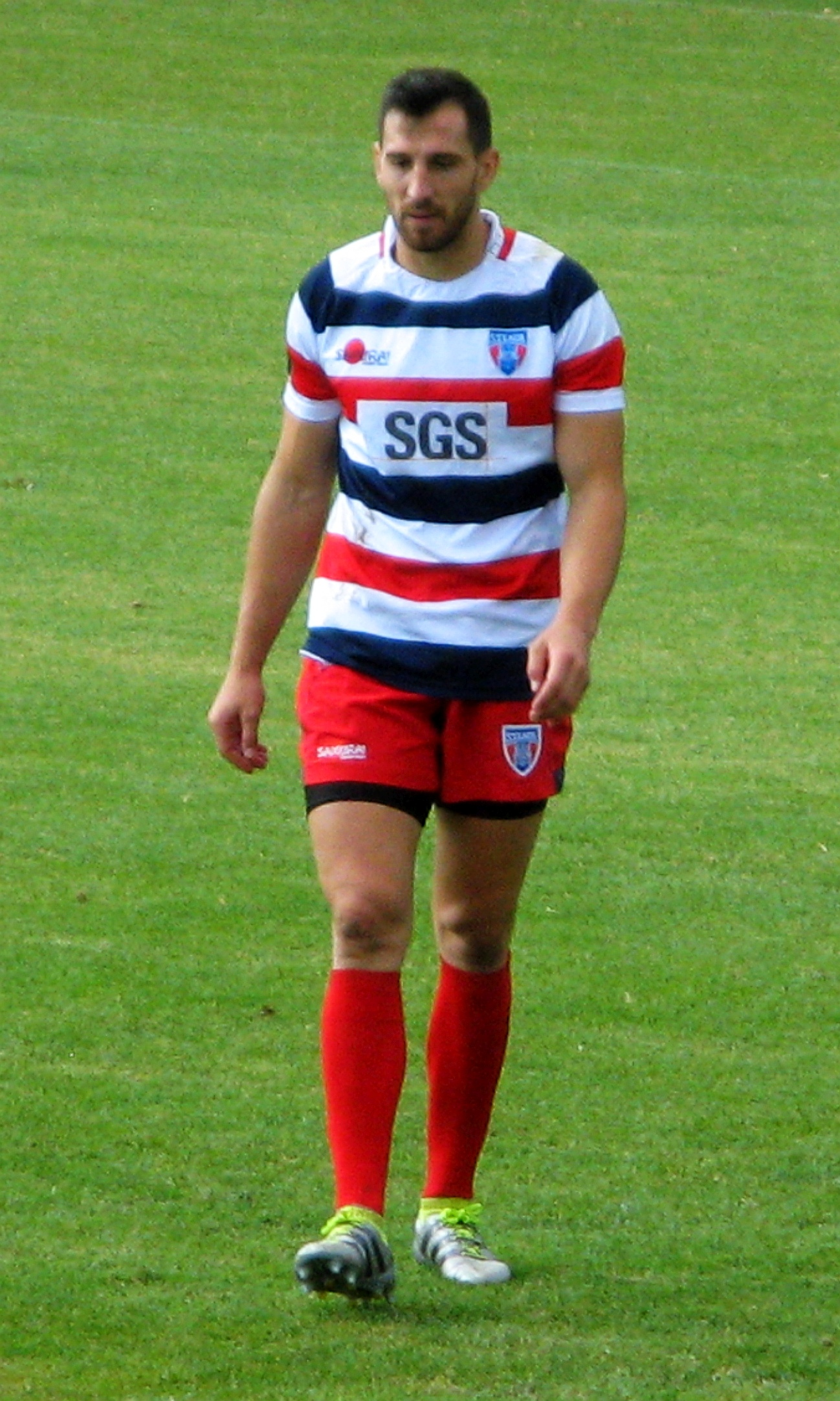 Romanian rugby union international Robert Neagu, player of CSA Steaua București rugby club seen in a match against CSM Baia Mare in Round 5 of Romanian Rugby SuperLiga in September 2017